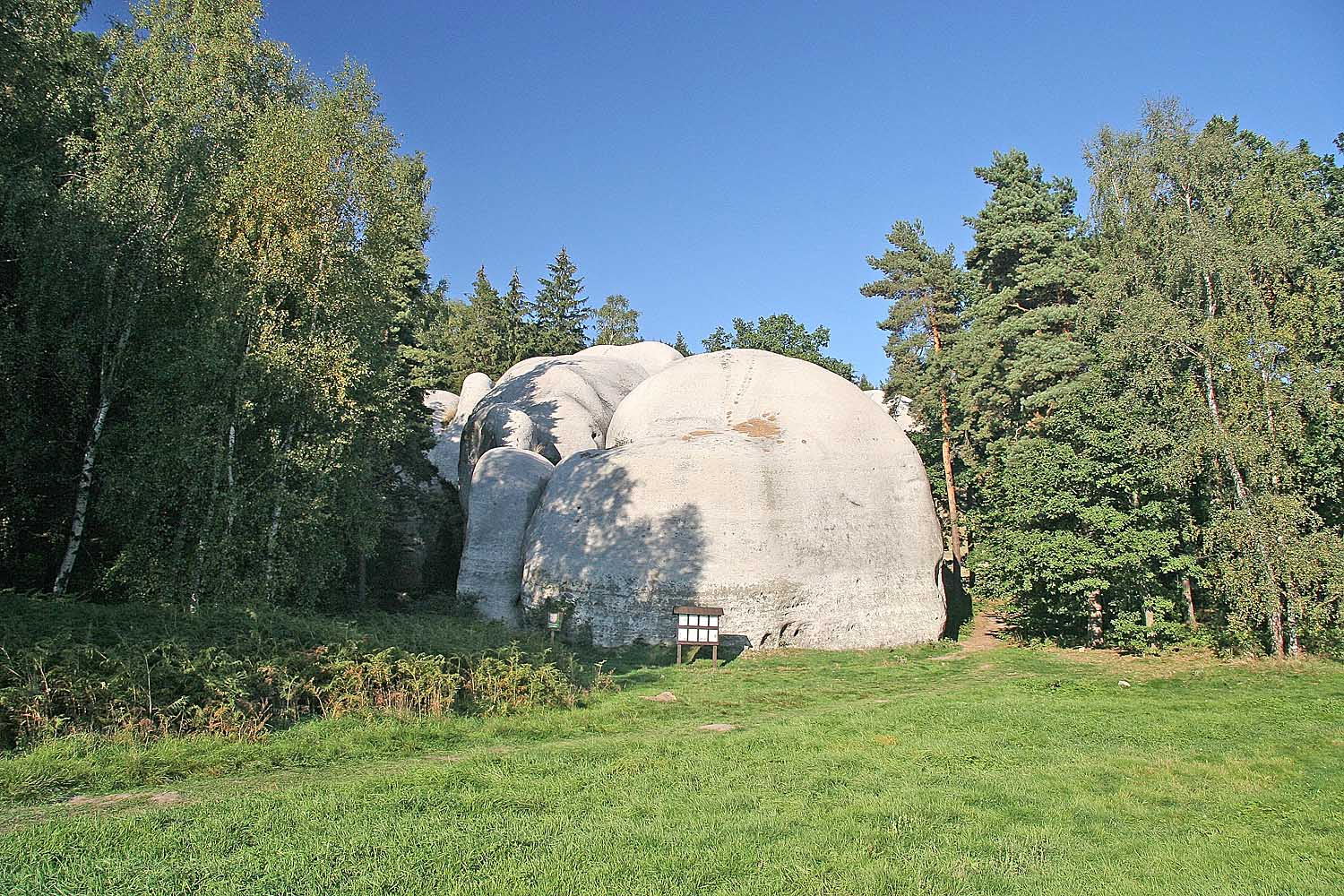 Natural Monument Bílé kameny near village Jitrava, district Liberec, Czech Republic autor: Prazak date: 22. 9. 2006